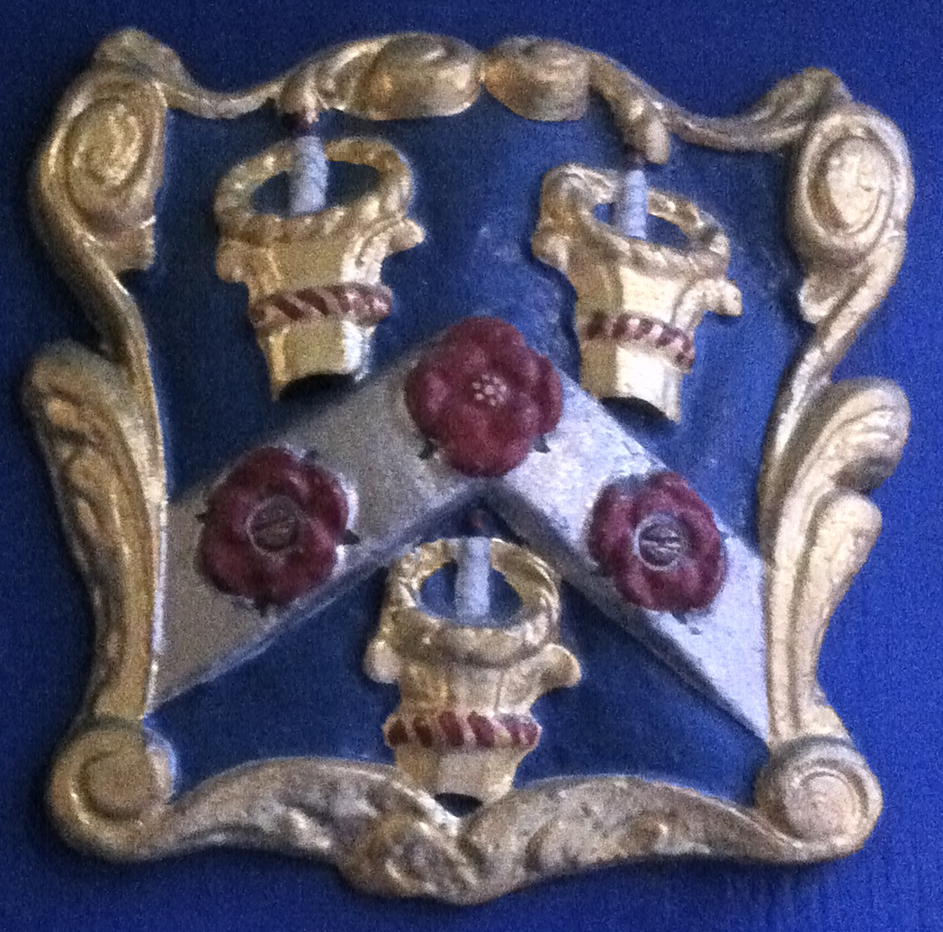 Shield of the Wax Chandlers' Company Arms, from the Company Hall's door. Blazon: Azure on a chevron argent three roses gules seeded or between three mortars royal of the last. A mortar is a type of candle-holder, similar to the mortar of a pestle-and-mortar; a mortar royal is particularly splendid.